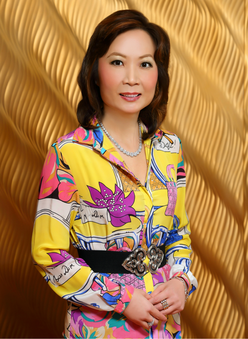 Jing Ulrich in China 2013